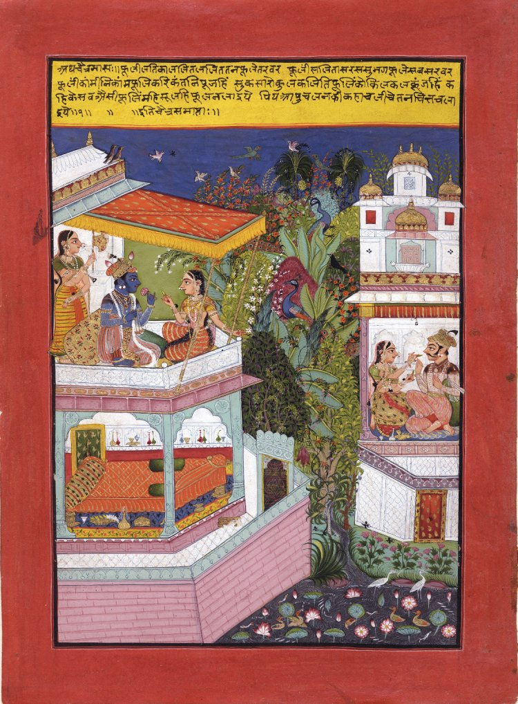 1 The month of Chaitra. Barahmasa series. March-April. 1675-1700 (circa) Bundi. British Museum